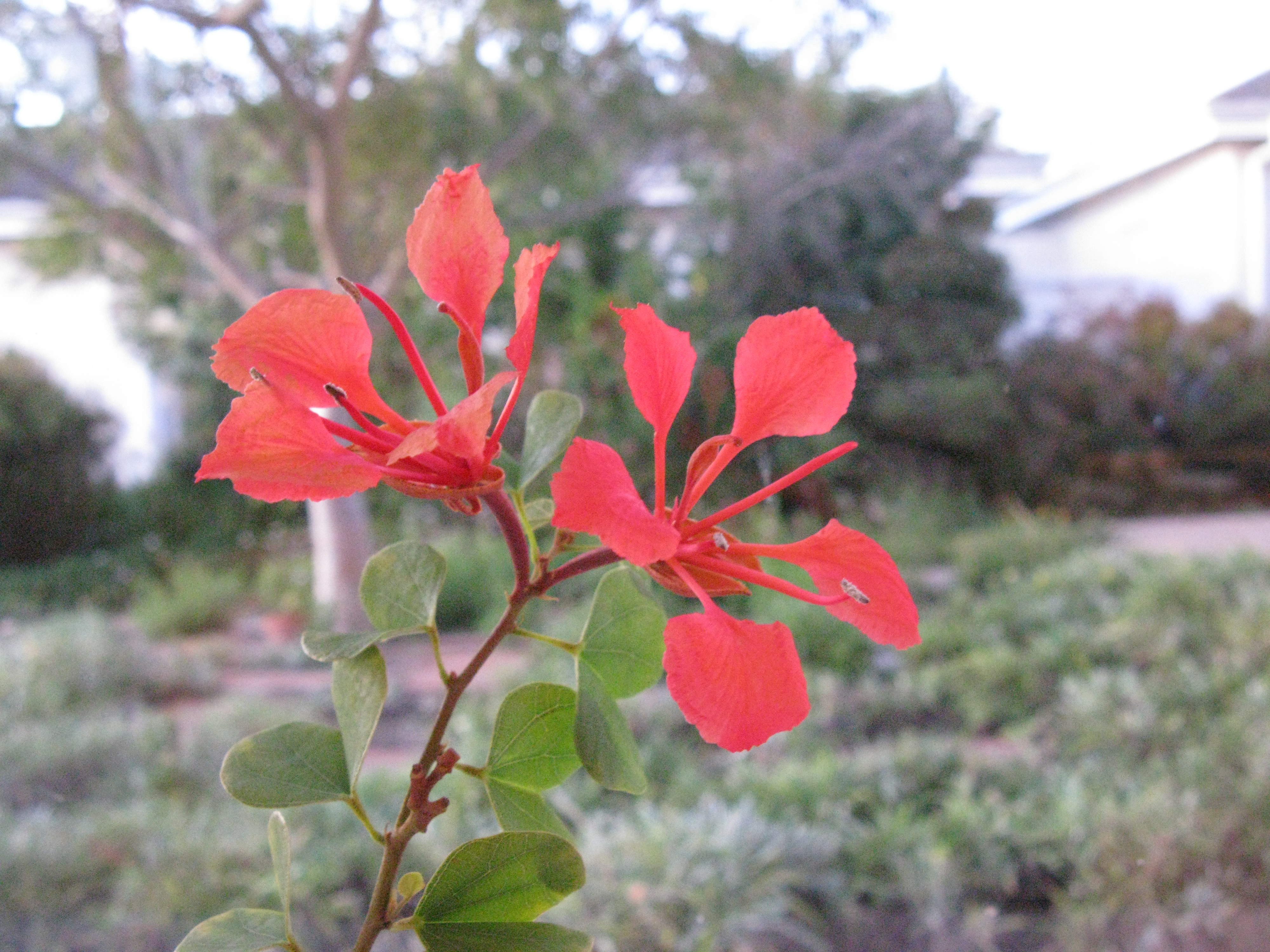 Five petals, three stamens and the ovary already showing a hint of the pod shape.